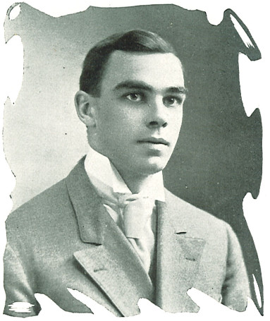 Photograph of Ed Rule (University of Iowa basketball coach)